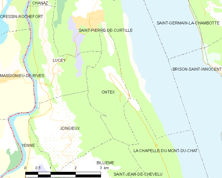 Map of French municipality